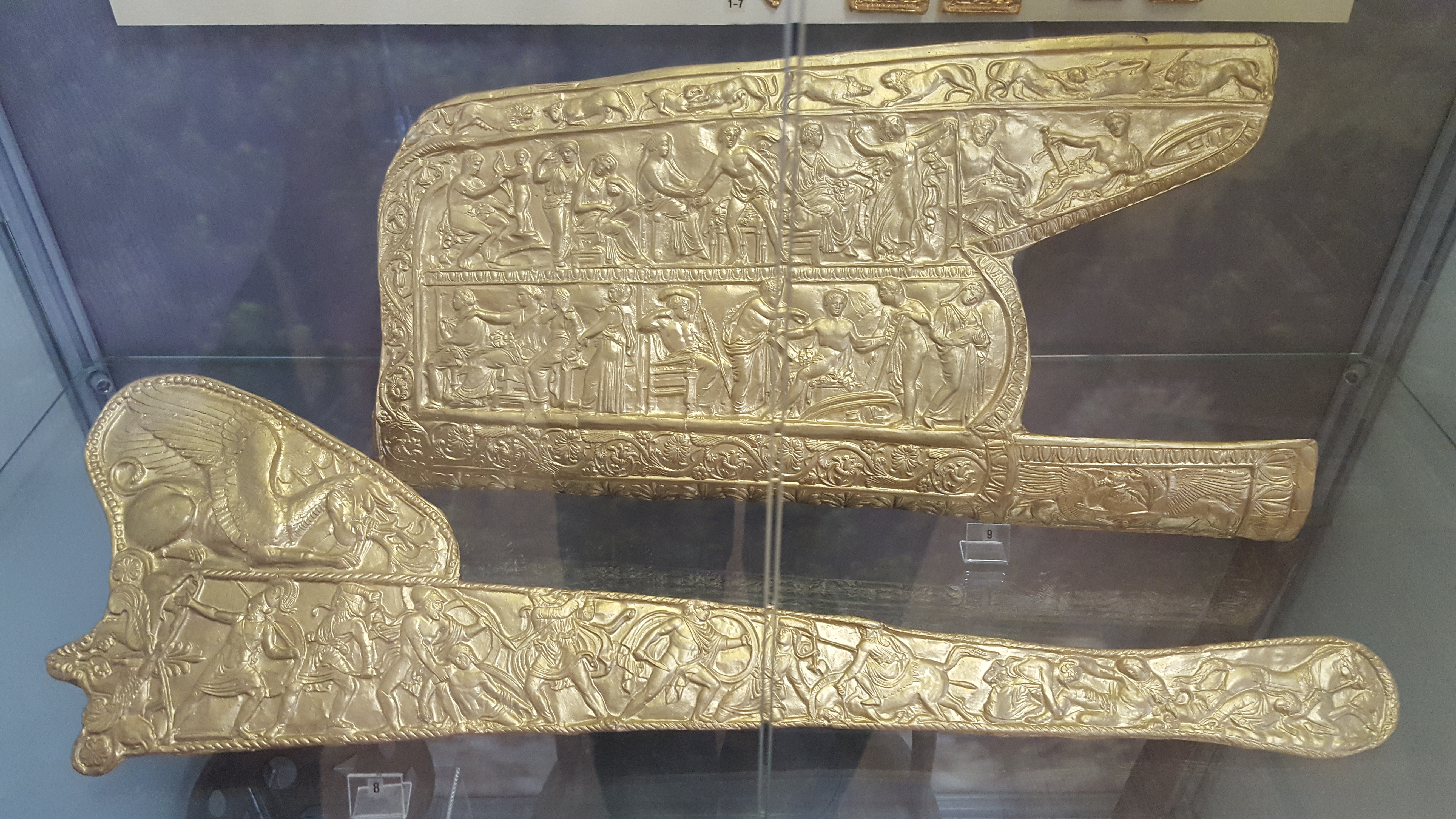 Copies of Gorytos and sword sheath excavated from a 4th century BC Scythian king burial in the Azov History, Archaeology and Paleontology Museum-Reserve.